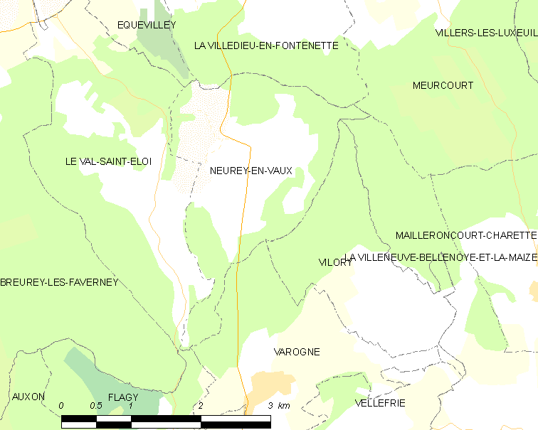 Map of French municipality